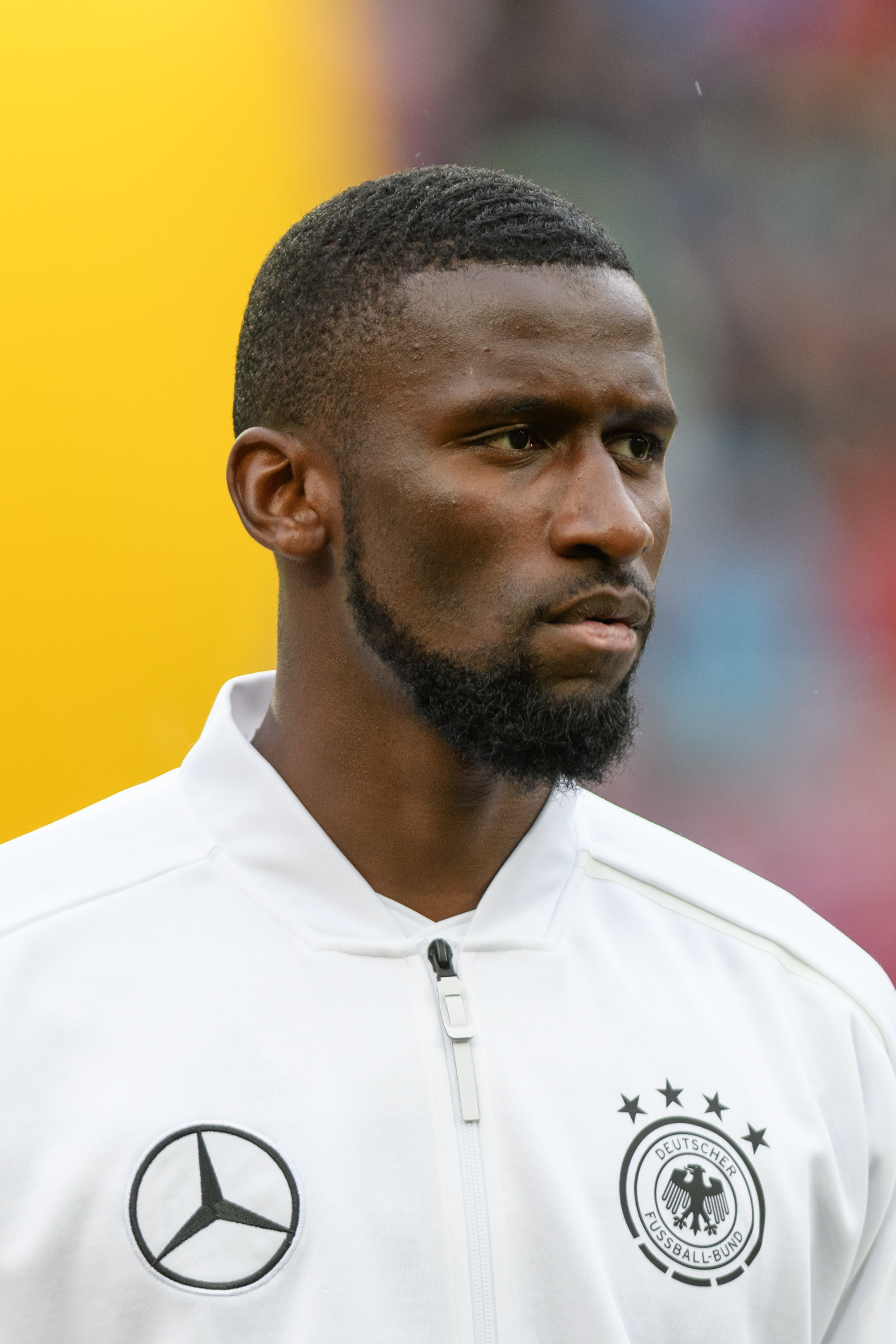 FIFA Friendly Match Austria vs. Germay 2018/06/02 in Klagenfurt/Woerthersee. Picture shows Antonio Rüdiger (GER).